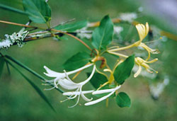 honeysuckle pic I took a few months back, released into the public domain. You may reprint this image at will for any purpose (including commercial), including without credit, but please don't claim you took the picture yourself; that would be dishonest. :-) Koyaanis Qatsi 04:53 Feb 20, 2003 (UTCa)